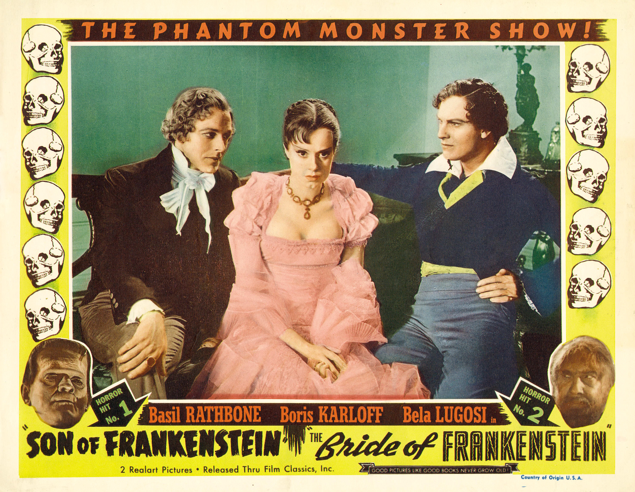 L. to R. : Douglas Walton, Elsa Lanchester & Gavin Gordon in Bride of Frankenstein - promotional poster